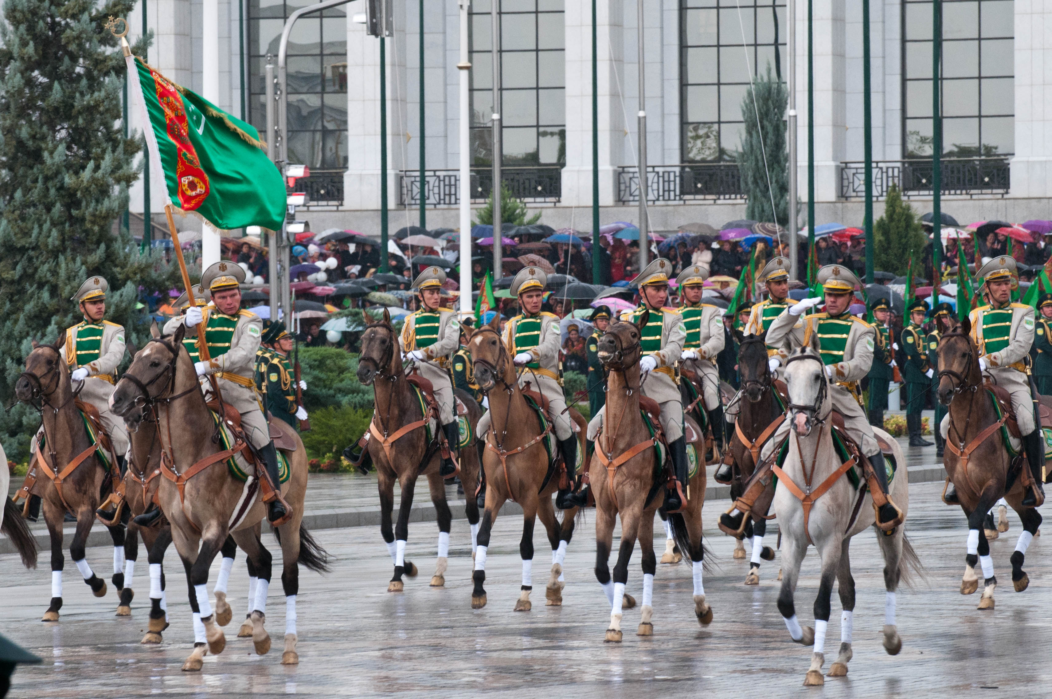 Celebrating the 20th year of independence in Turkmenistan